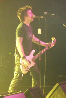 LA Guns, FireHouse, and Skid Row concert at Prairie Knights Casino 8.25.07. Photo by Matt Becker